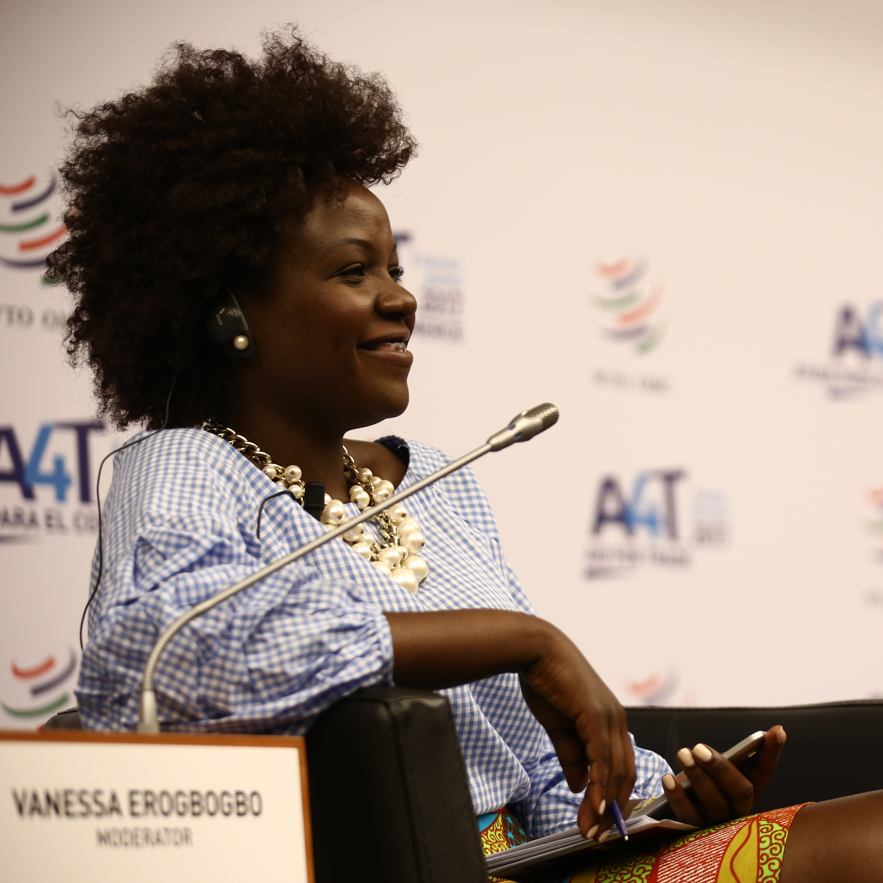 Vanessa Erogbogbo Photos from the WTO Aid for Trade Global Review 2017 photo gallery may be reproduced provided attribution is given to the WTO and the WTO is informed. Photos: © WTO/Jay Louvion